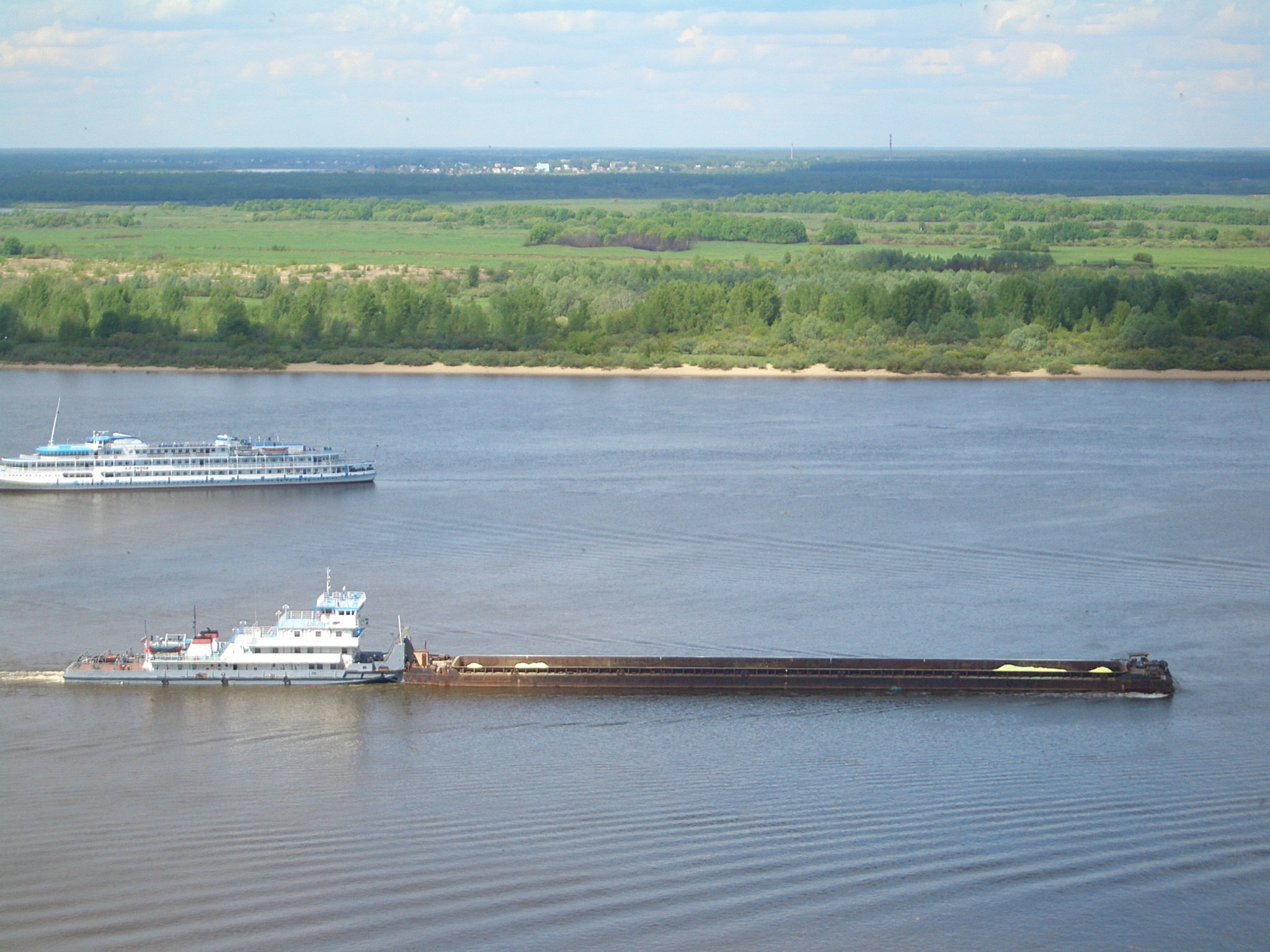 A barge with a tug and a passenger boat on the Volga off Nizhny Novgorod. Photo taken from near the Chkalov Monument. The meadows of the Borsky district in the background.